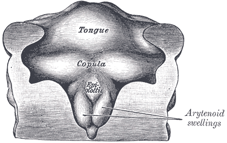 Floor of pharynx of human embryo about thirty days old. (From model by Peter.)